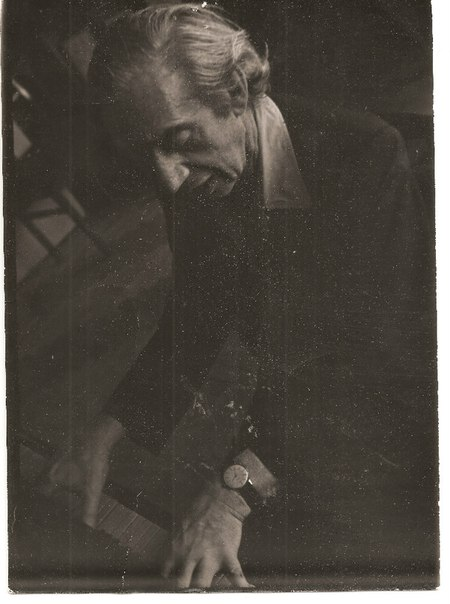 Miron Kharlap